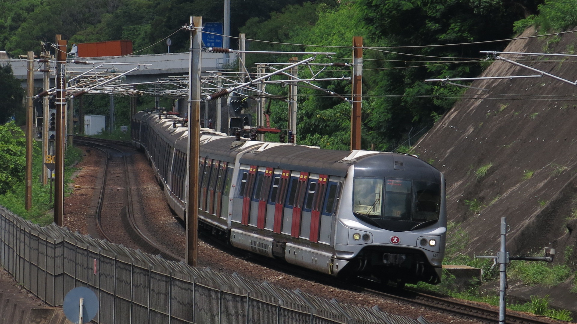 Mid-life Refurbishment Train running between Fo Tan and University Stations